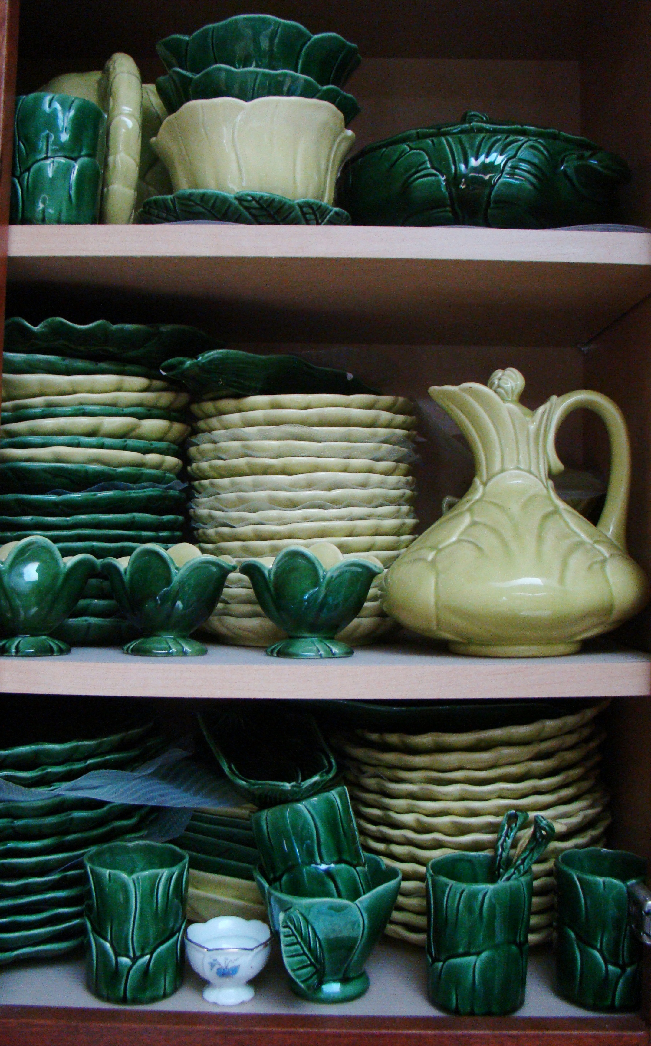 A collection of ceramics by Cemar Clay Products of Los Angeles (1935-55)